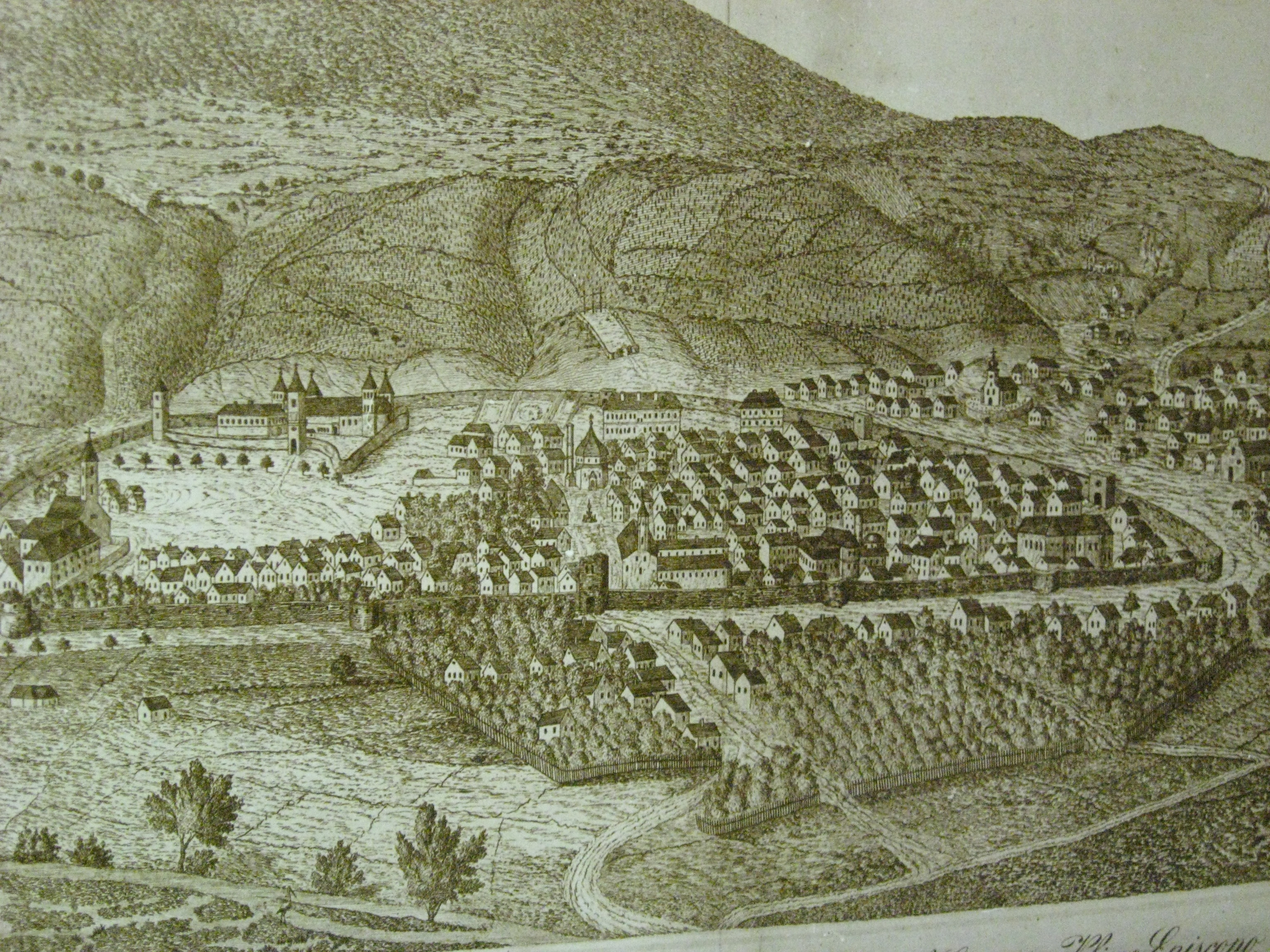 Pécs cathedral complex in 1763 This is a photo of a monument in Hungary, Identifier: 1796